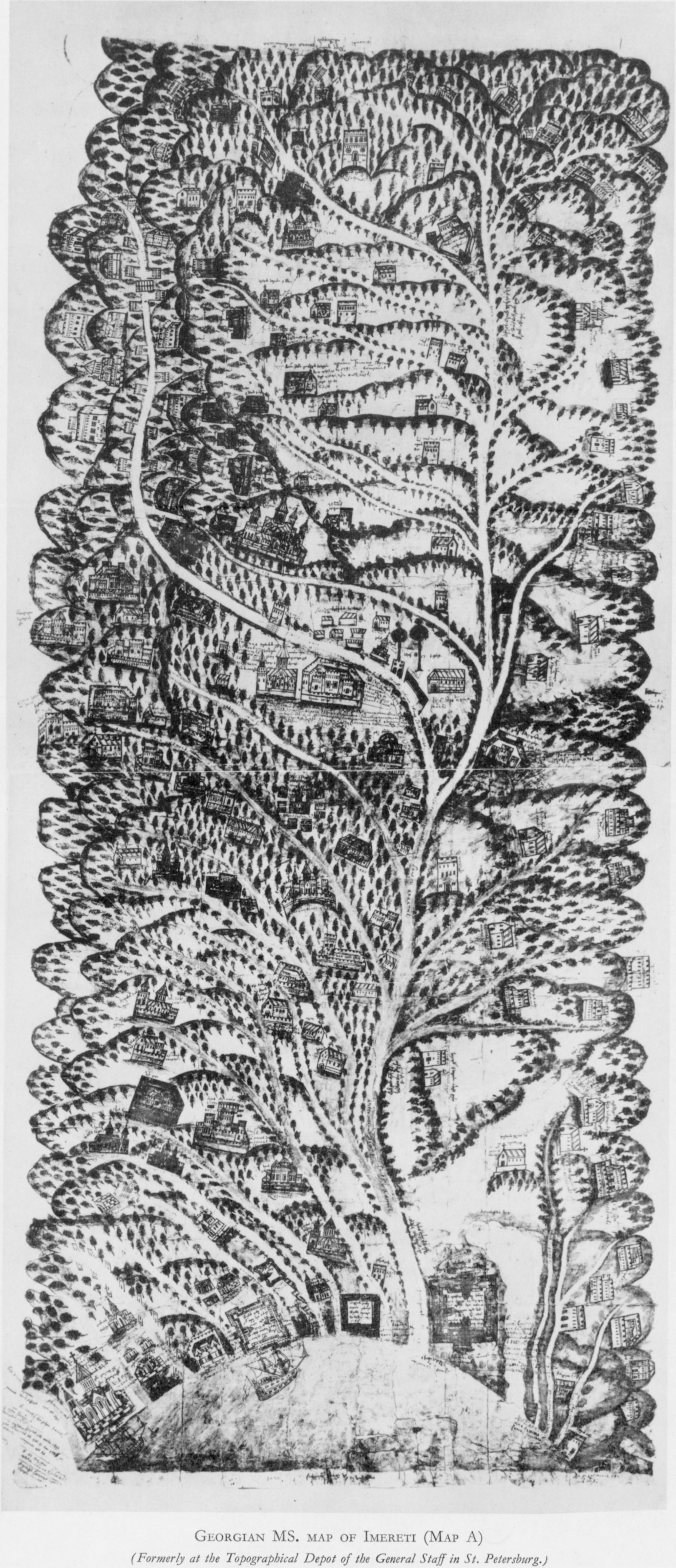 Imereti kingdom map